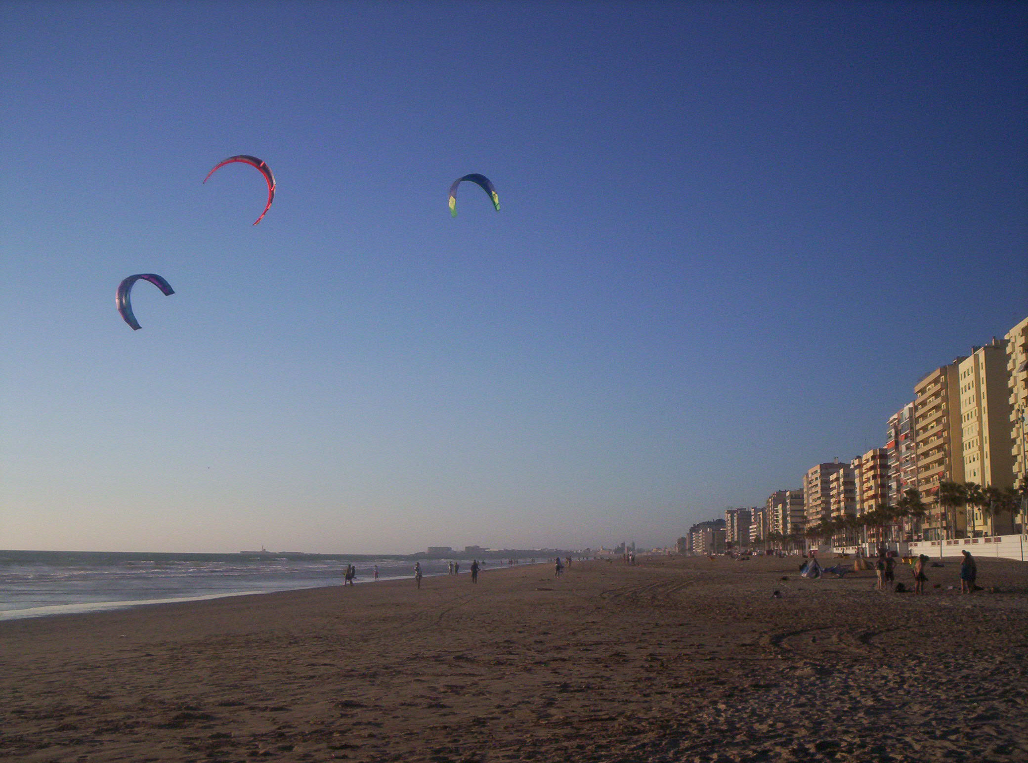 "Playa de la Victoria"'s view, in Cadiz, Spain, with some kites in the background.